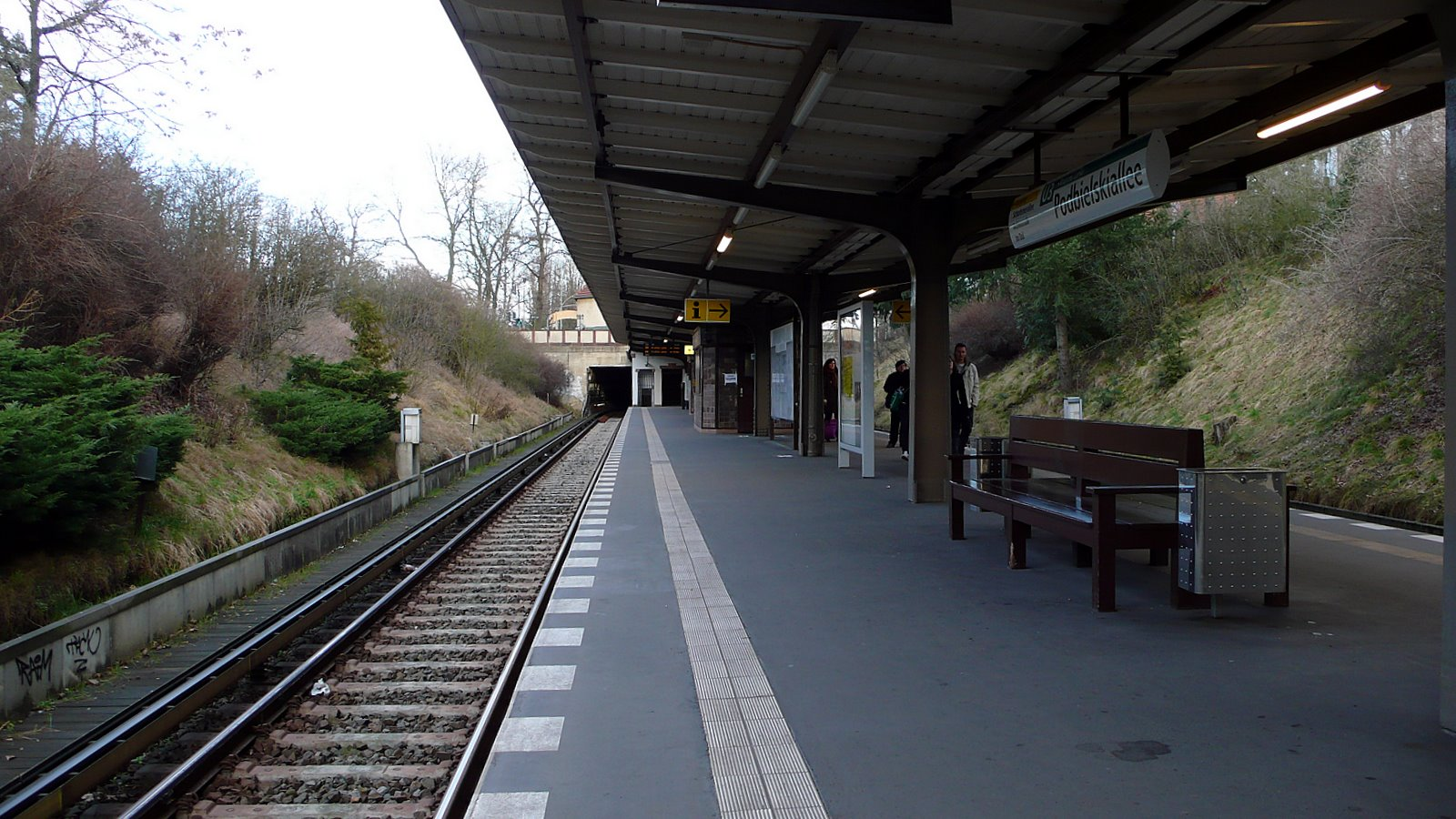 Podbielskiallee subway Berlin